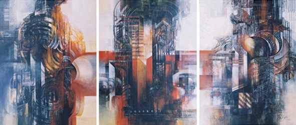 1 Painting Metropolis I by Mauricio García Vega